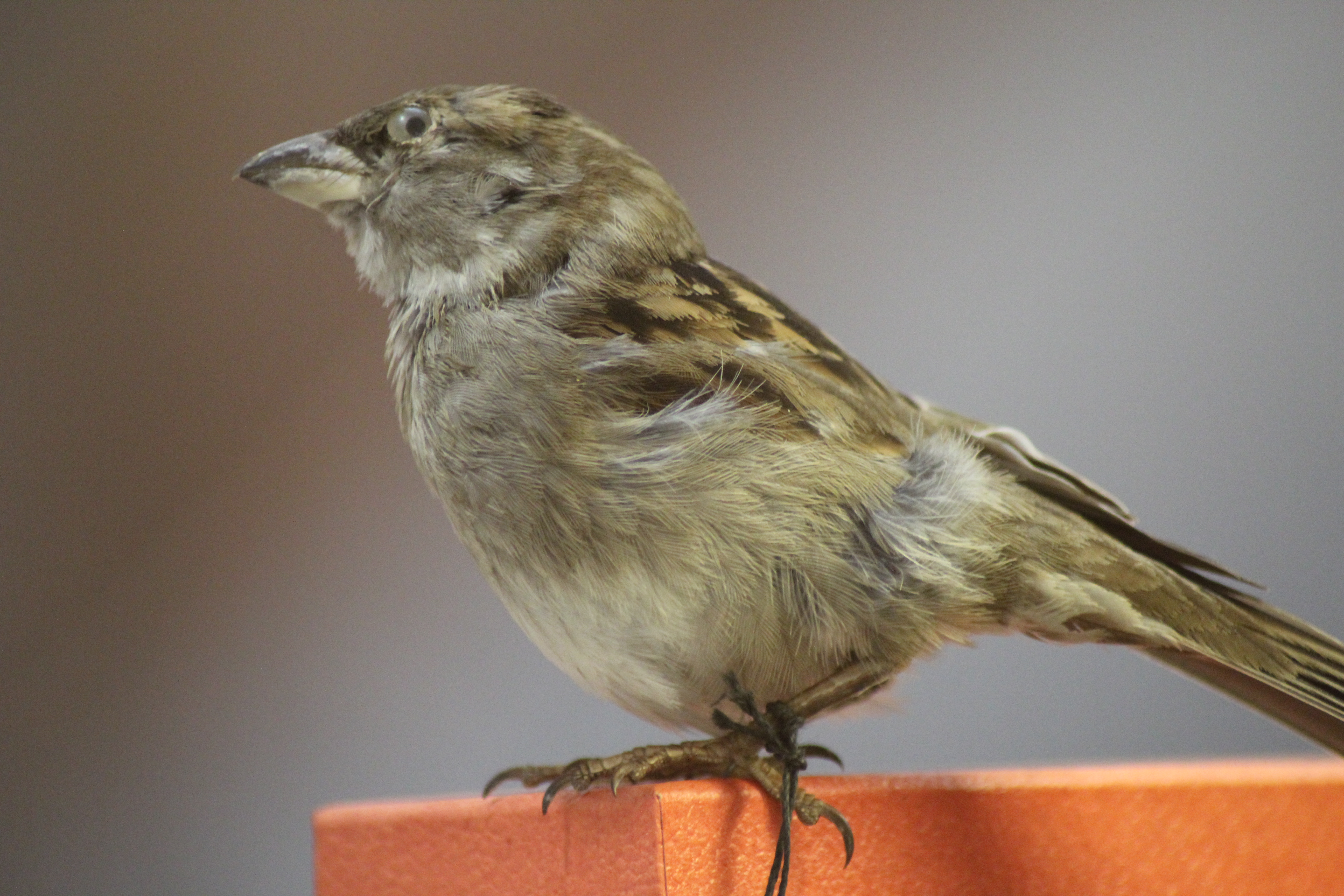 Domino Day 2005 sparrow. This sparrow was shot and killed on 14 November 2005 in the Frisian Expo Centre in Leeuwarden, Netherlands during preparations for Domino Day 2005 .